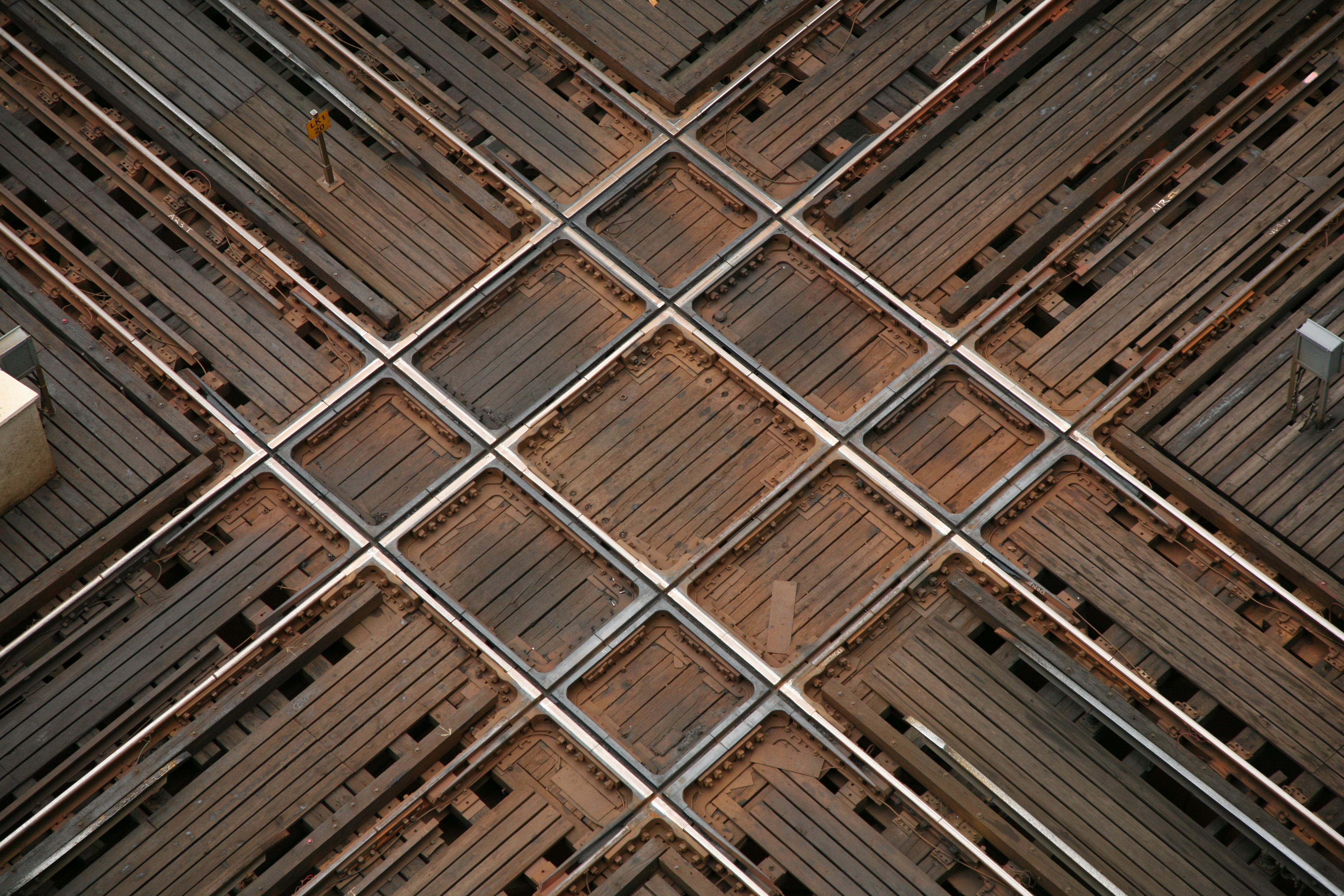 Northwest corner of the Chicago Loop elevated Tracks